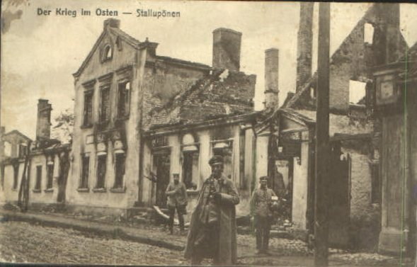 Nesterov (Stallupönen) in 1915Stallupönen